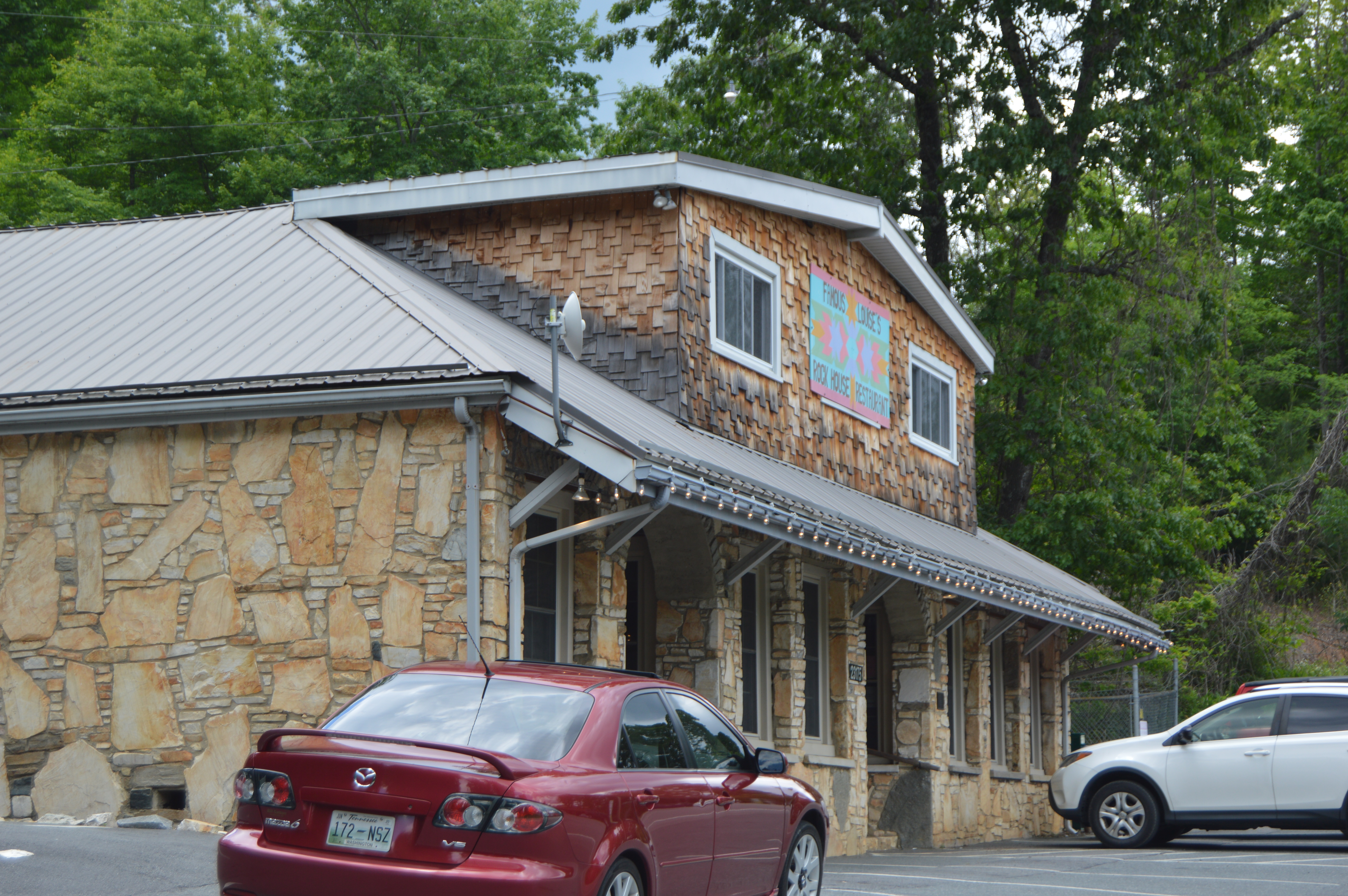 Front of the former Linville Falls Tavern, located along U.S. Route 221 in Linville Falls, North Carolina, United States. Built in 1929, it is listed on the National Register of Historic Places.